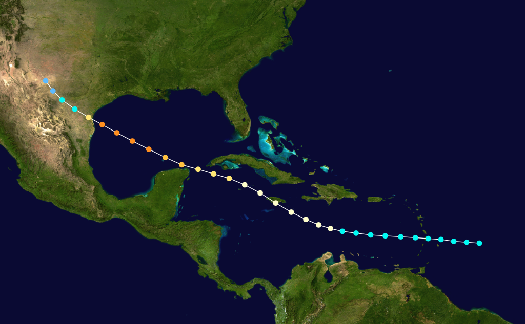 1916 Atlantic hurricane 6 track. Uses the color scheme from the Saffir-Simpson Hurricane Scale.